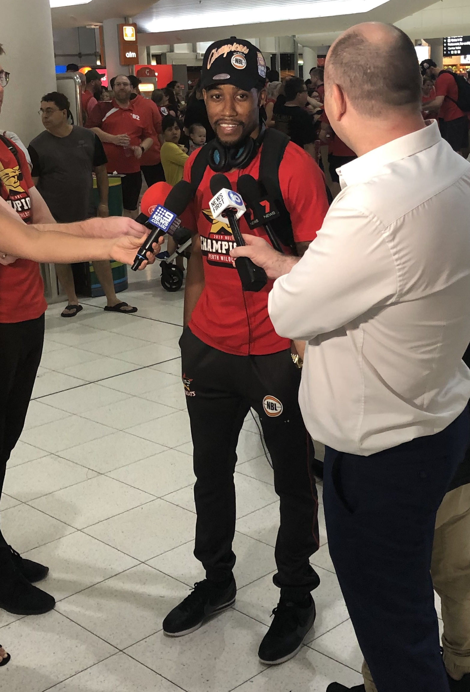 Bryce Cotton of the Perth Wildcats, after winning his second NBL championship in three years